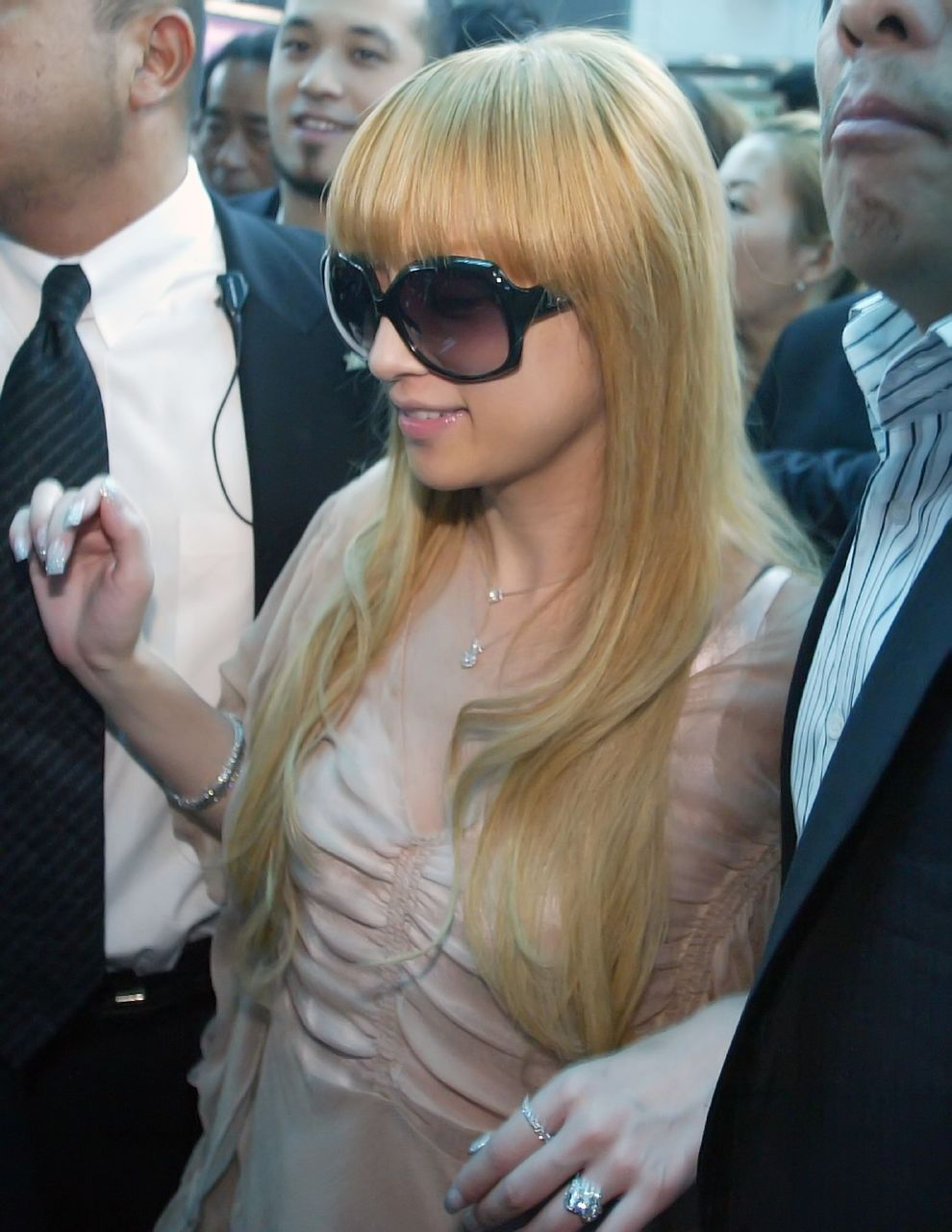 Ayumi Hamasaki, March 2007